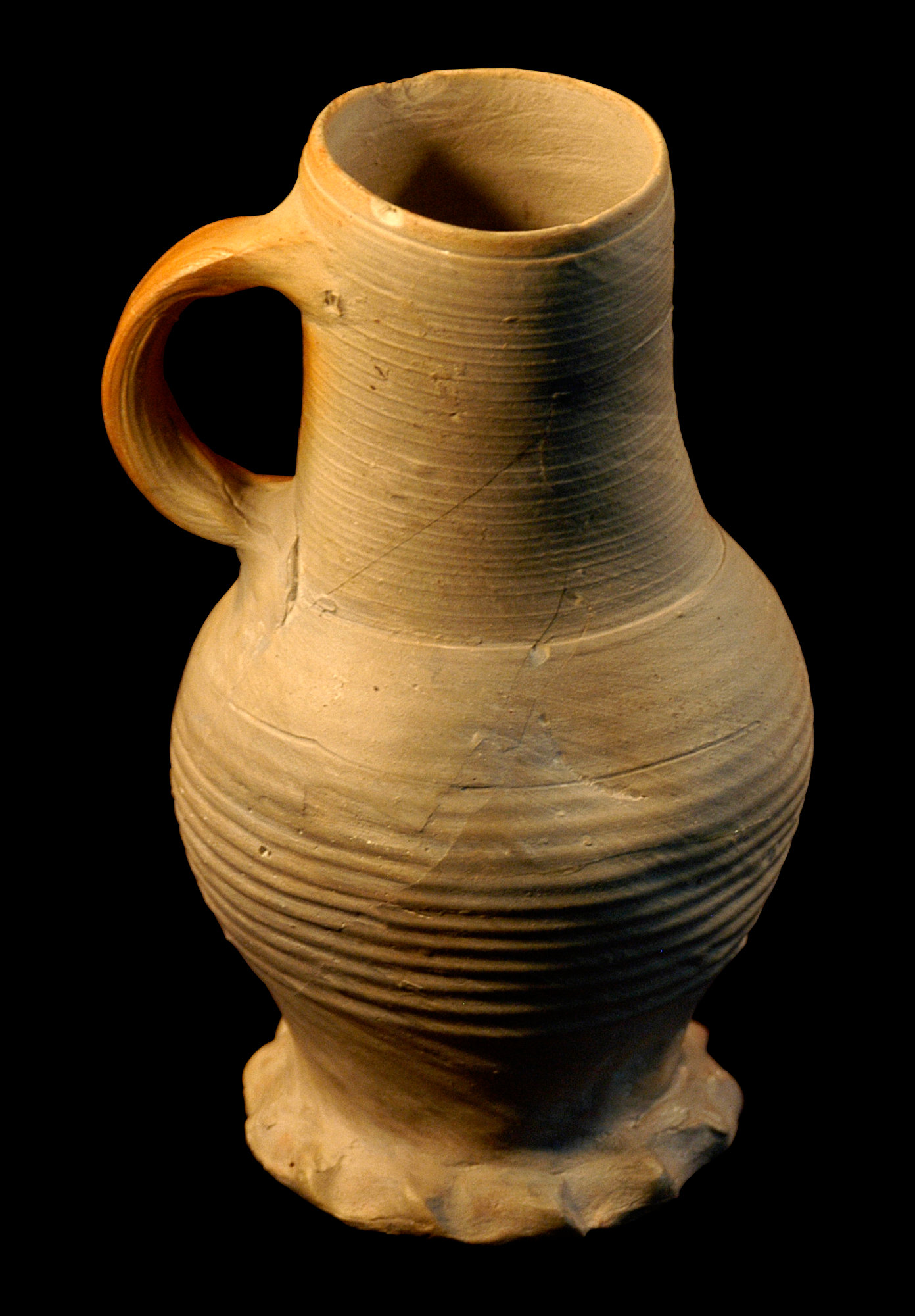 Sieburg pottery from the Luhdorf coins hoard